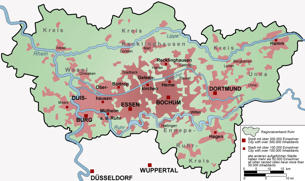 Map of the Ruhr area, Germany – The map shows the Ruhr Area (Regionalverband Ruhr) with all cities with more than 50,000 inhabitants.